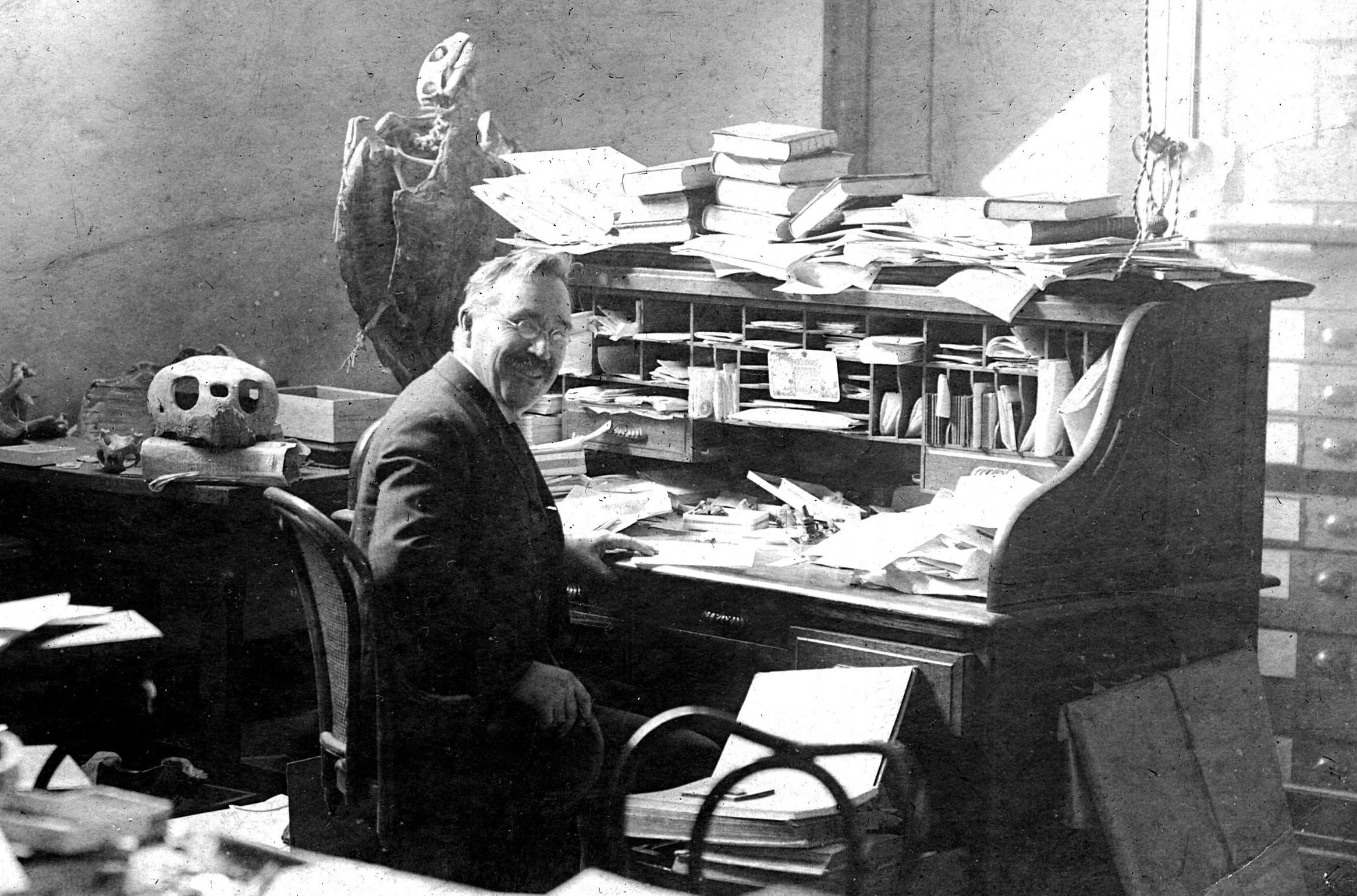 Photo from the Hay family collection showing Oliver Perry Hay at his desk at the Carnegie Institution circa 1920. Permission to share openly granted by great-granddaughter Donna Hay.